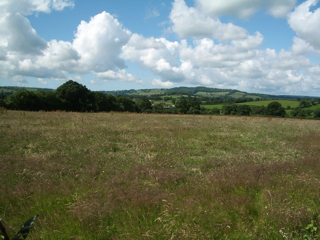 Farmland view at Totnell Corner, south west towards Melbury Bubb